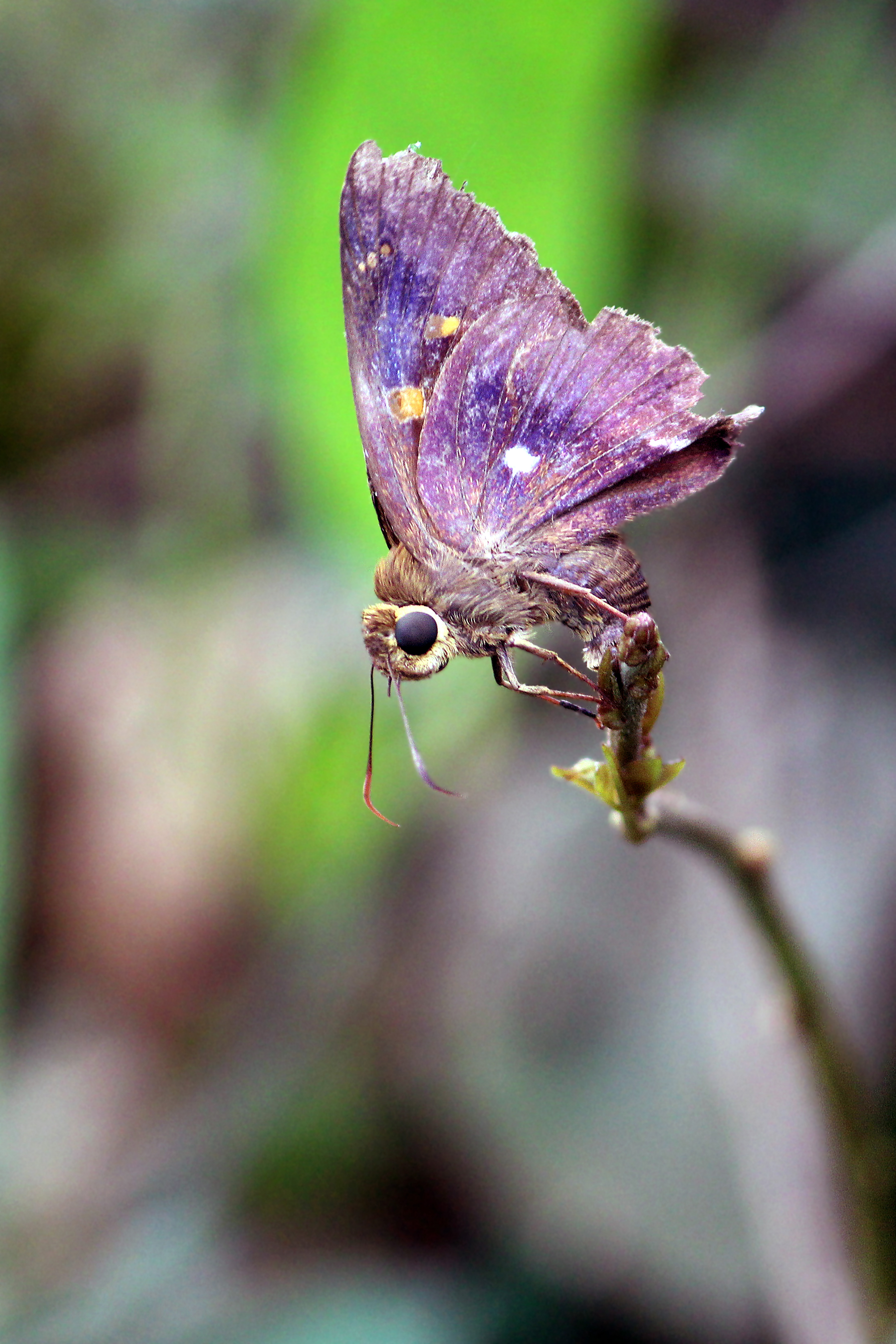 Common Awl (Hasora badra)